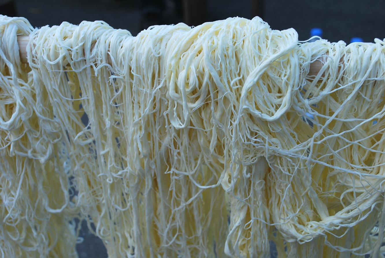 Tenili cheese, Meskhetian cheese made in Georgia’s Samtskhe-Javakheti and Kvemo Kartli regions from sheep or cow’s milk.